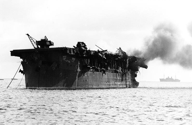 The U.S. light aircraft carrier USS Independence (CVL-22) afire aft, soon after the "Able Day" atomic bomb air burst test at Bikini on 1 July 1946 (Operation Crossroads). The bomb had exploded off the ship's port quarter, causing massive blast damage in that area, and progressively less further forward. The carrier did not sink during the tests and was finally sunk as a target off San Francisco, California (USA), on 27 January 1951.